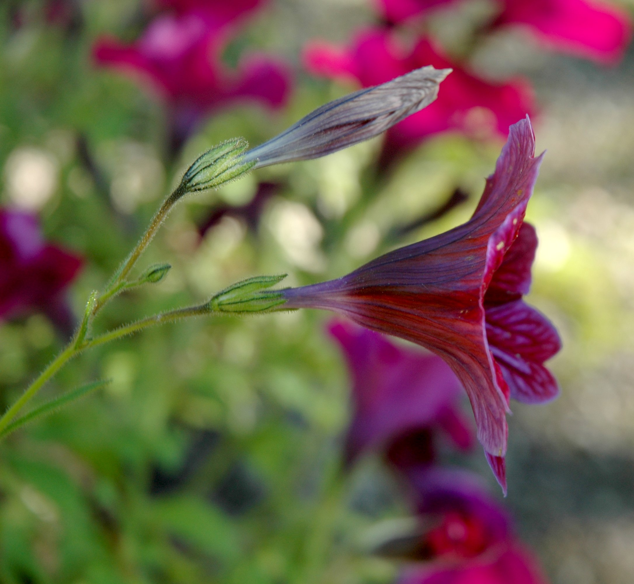 Flower of Salpiglossis sinuata (Solanaceae) at Jena Botanical Garden, Germany